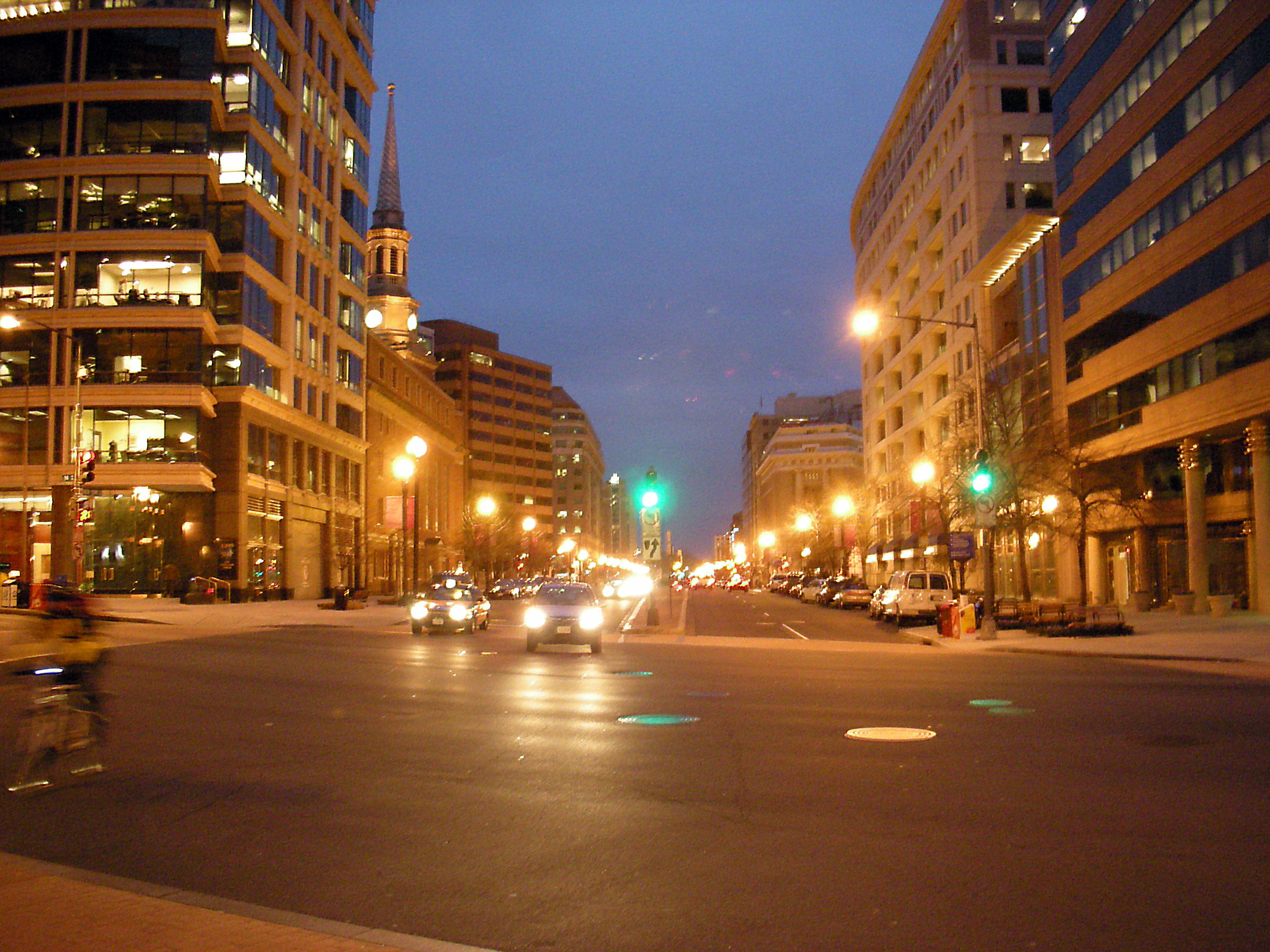 New York Avenue N.W. in Washington D.C. at the intersection of 14th Street looking east.